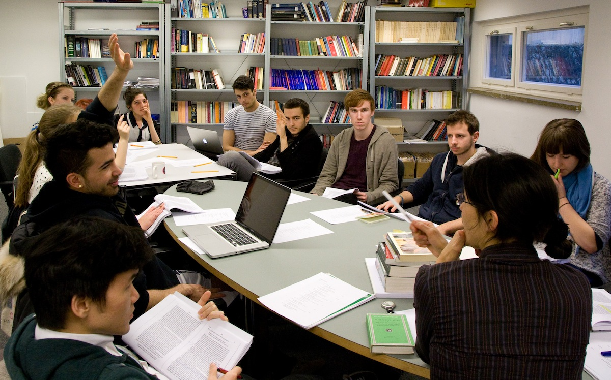 This picture depicts a seminar at Bard College Berlin.